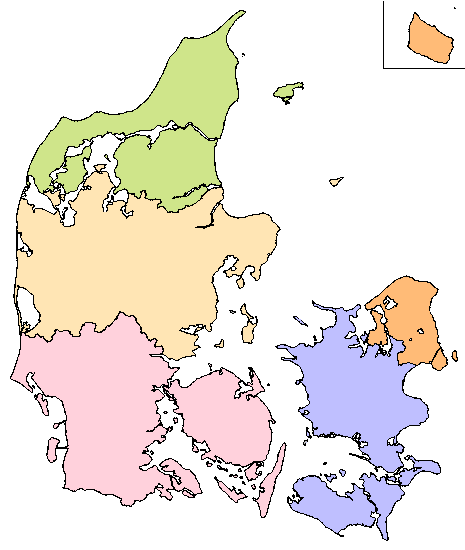 Regions of Denmark.